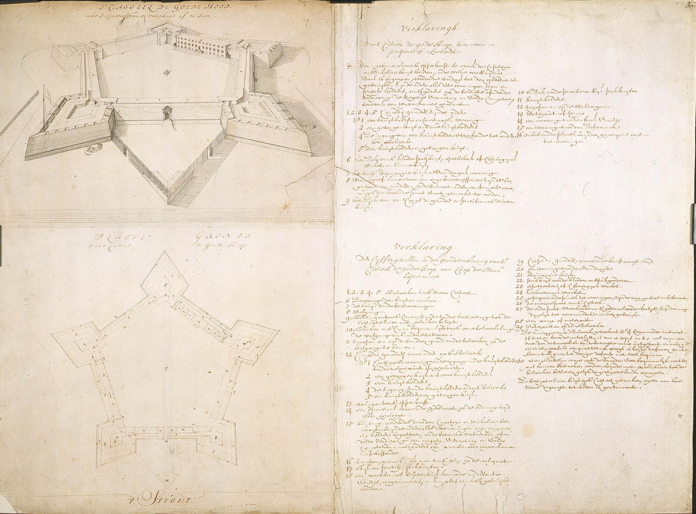 The original title according to the catalogue Leupe (NA) is: T Casteel de Goede Hoop, in het perspectief van de waterkant af te sien. Upper insert: Verklaring van 't Casteel de Goede Hoop, hiernevens in perspectief afgebeeldt. Key: 1-9; 1-30 Lower insert: Platte grondt van 't Casteel de Goede Hoop. Notes on reverse: A. A. nr. 5 d. verso nr. 498 ij.. Restored on linen.